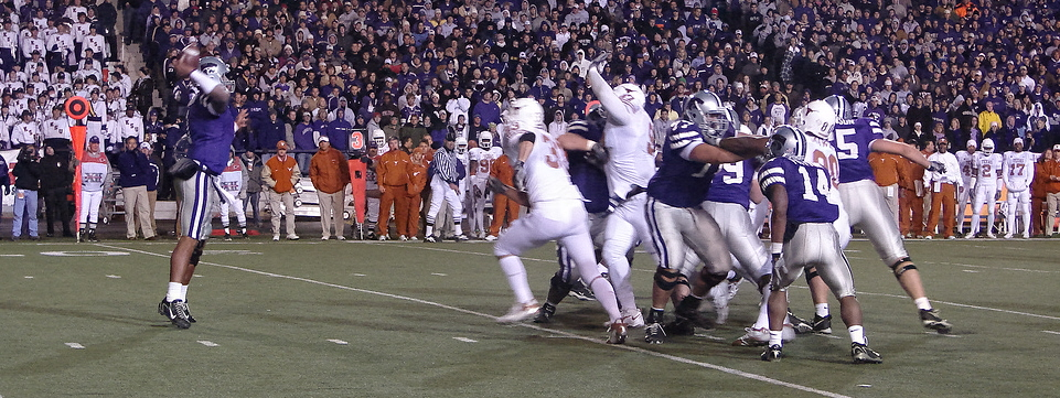 Josh Freeman uses all of his 6'6 frame to pass over the Texas line during the KSU vs. Texas game, 2006